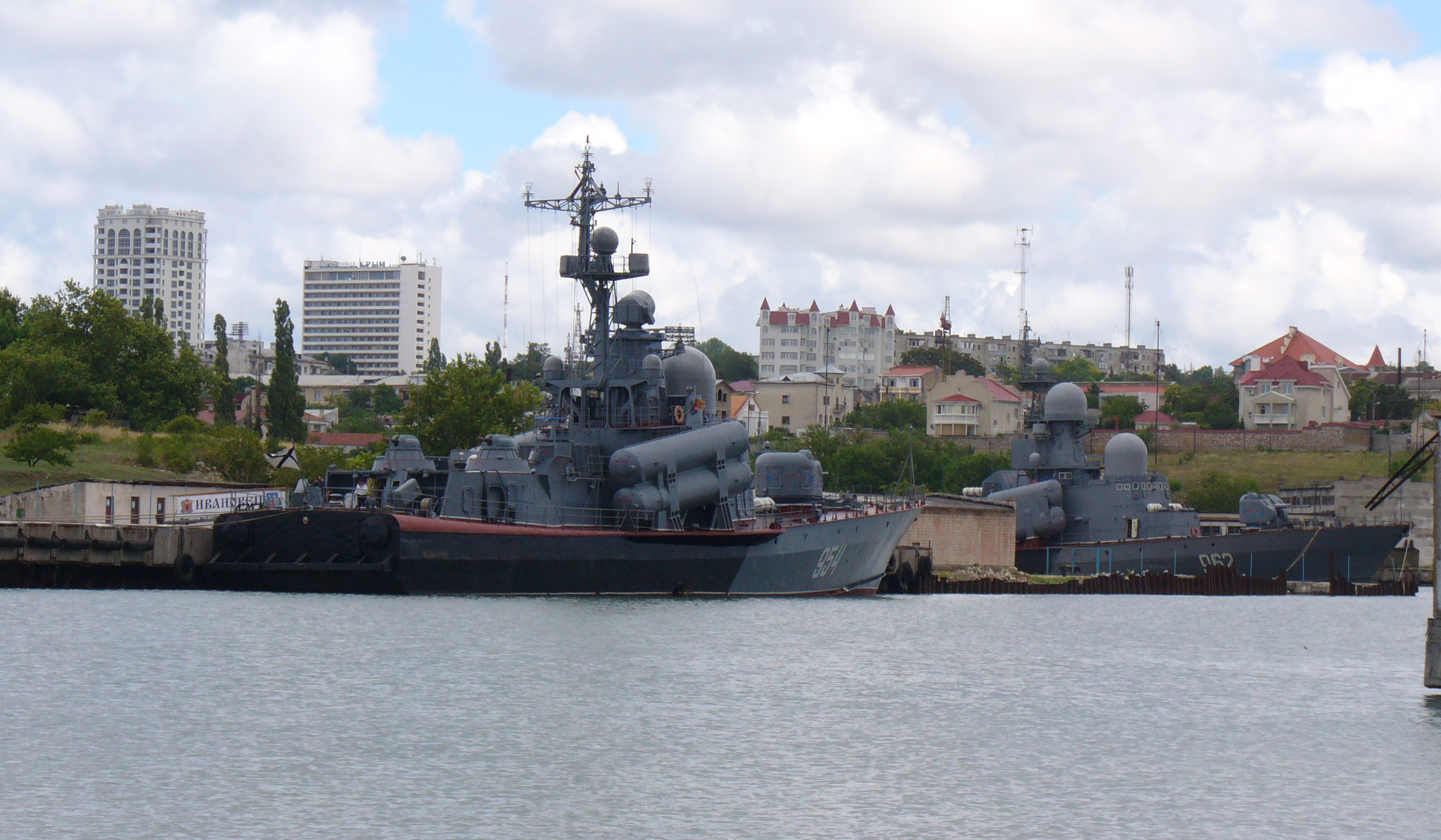 Project 12411M boat R-334 "Ivanovets" and project 12417 R-71.